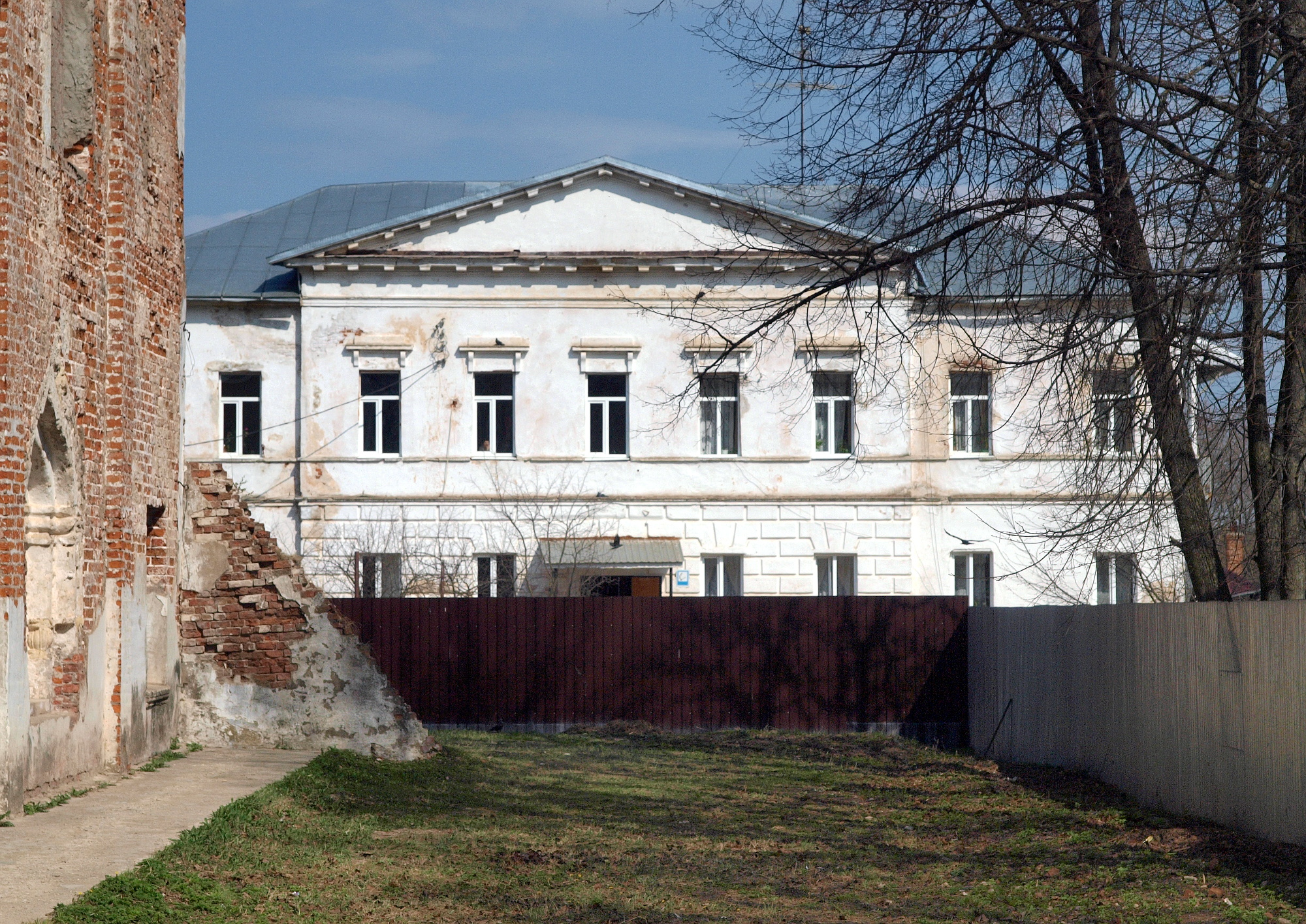 This white house near Nativity Cathedral in Vereya Kremlin was once the town hall and now is .. a local asylum.